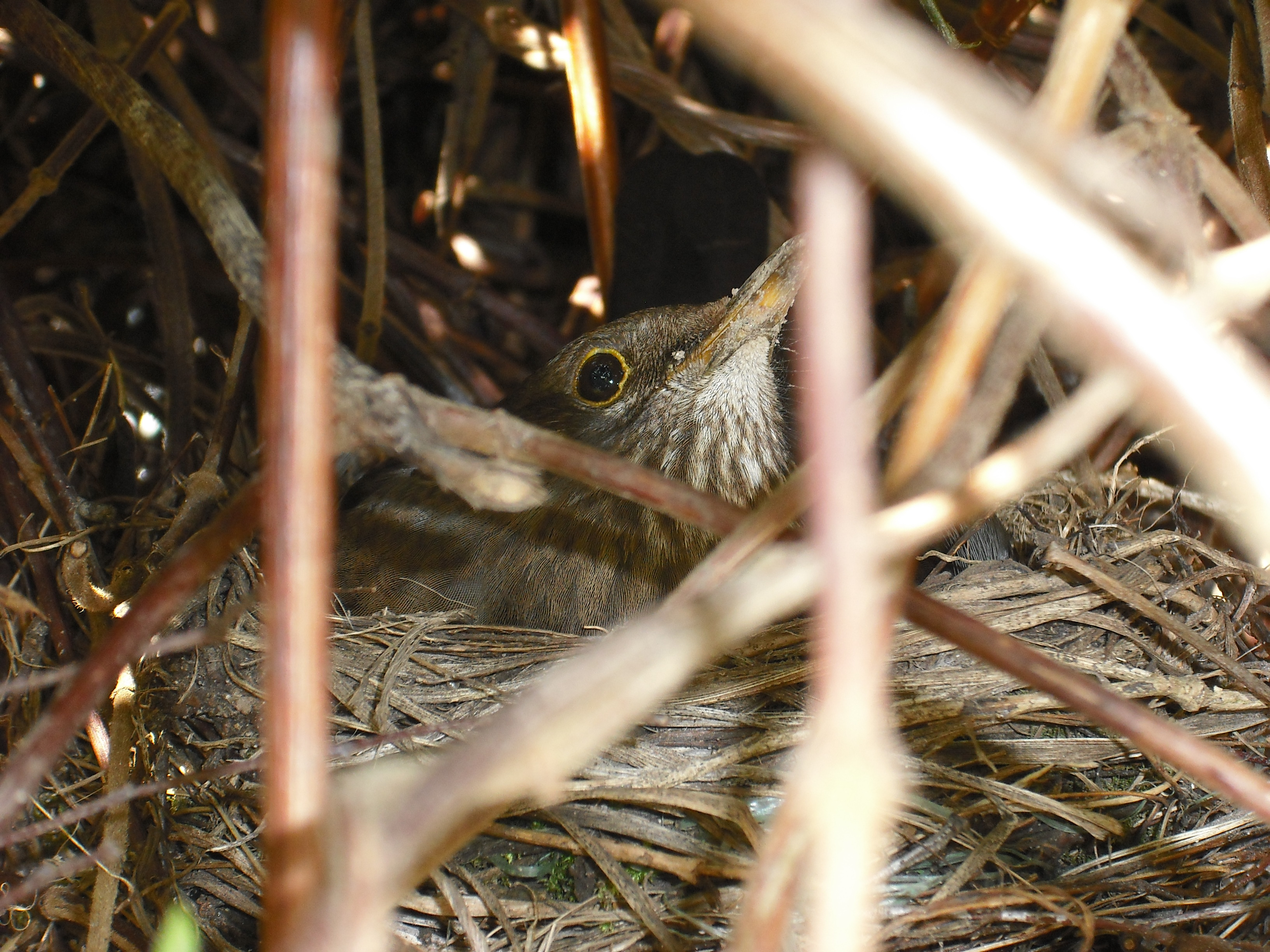 Common blackbird nest - Location: Donsbrüggen (Kleve) - Germany. Date: April 10th 2010.